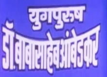 Movie poster yugpurush dr babasaheb ambedkar 1993